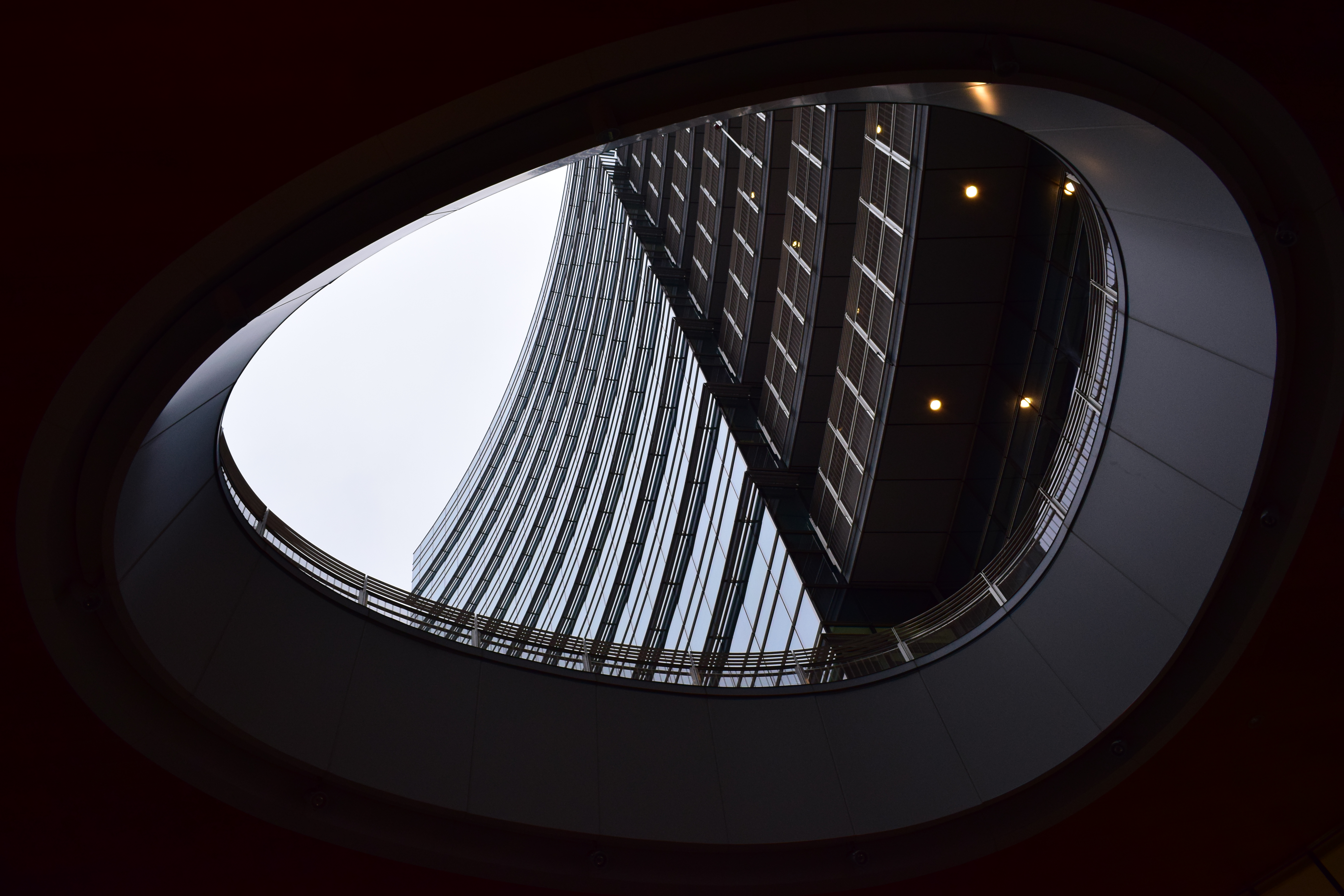 Piazza Gae Aulenti, Milan, Italy